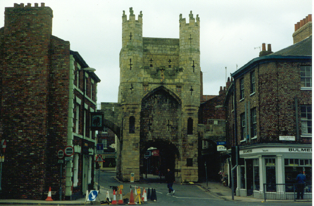 Monk Bar. A view of one of the gates which many an enemy, and potential conqueror, would have loved to have seen - from the inside of the wall.